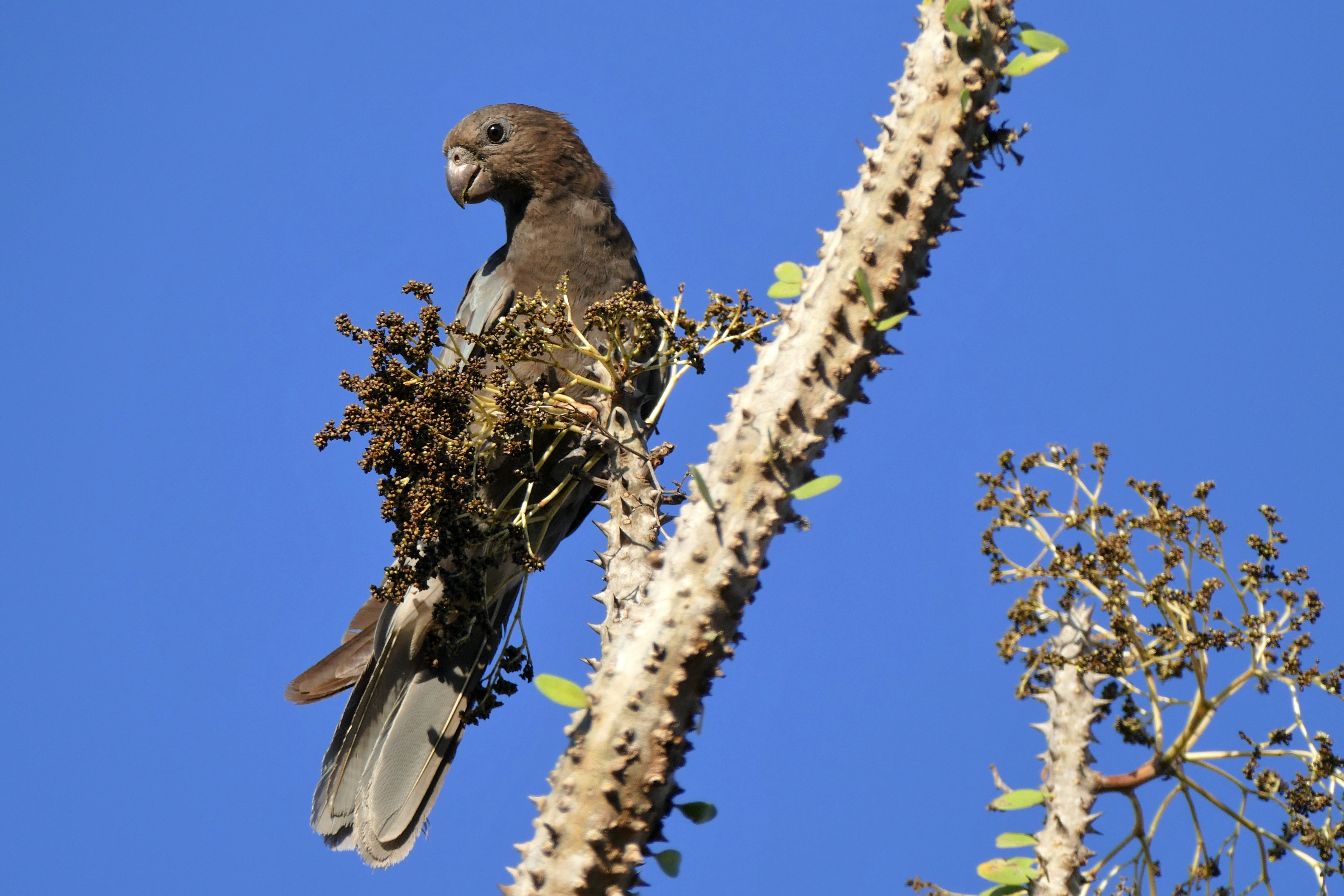 lesser Vasa Parrot, madagascar